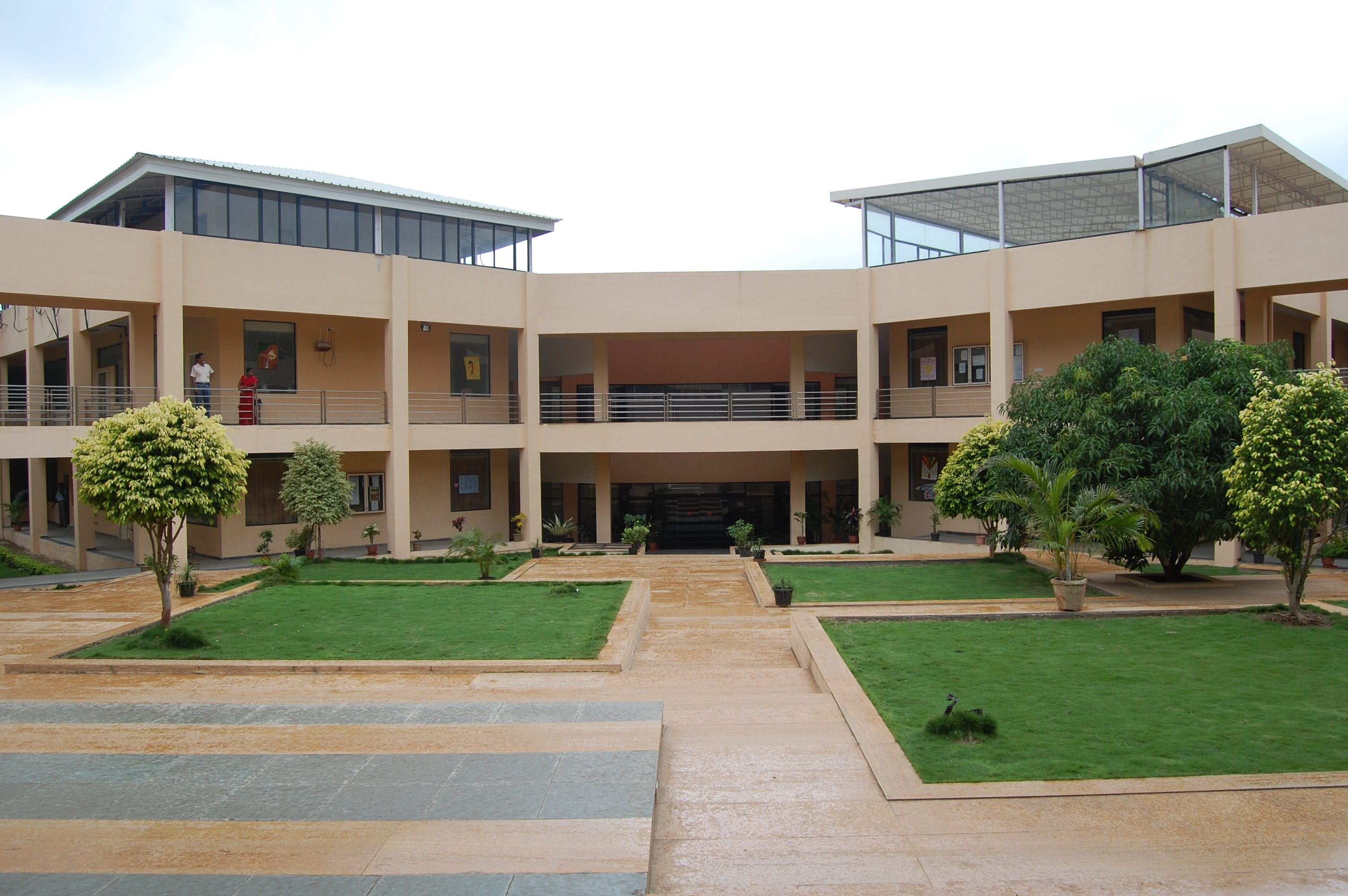 ISB&M Pune Nande Campus Building